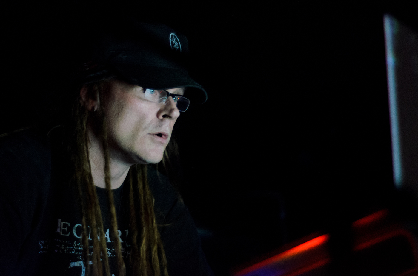 cEvin Key